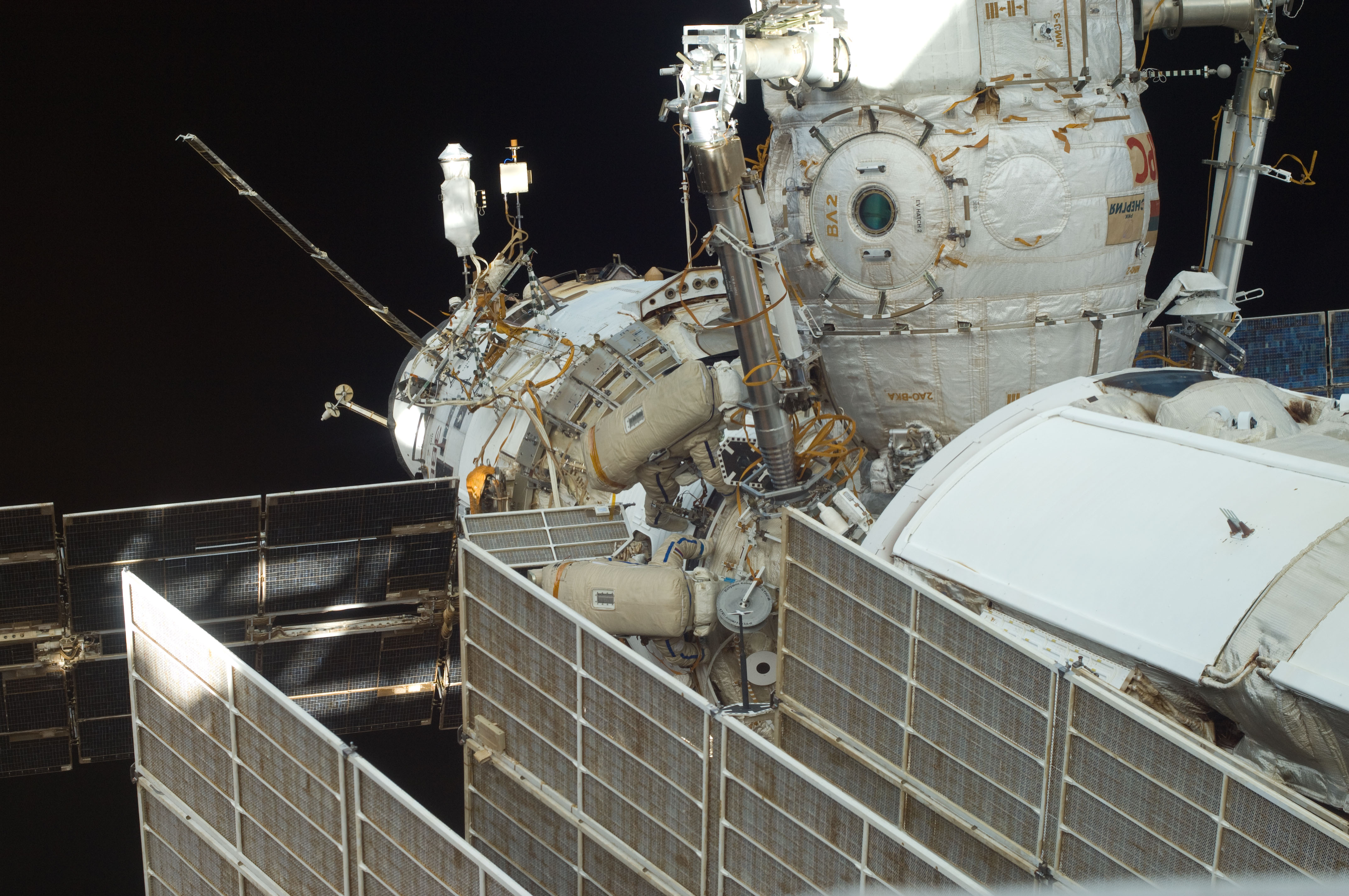 Russian cosmonauts Sergei Volkov and Alexander Samokutyaev, both Expedition 28 flight engineers, attired in Russian Orlan spacesuits, participate in a session of extravehicular activity (EVA) on the Russian segment of the International Space Station. During the six-hour, 23-minute spacewalk, Volkov and Samokutyaev moved a cargo boom from one airlock to another, installed a prototype laser communications system and deployed an amateur radio micro-satellite.